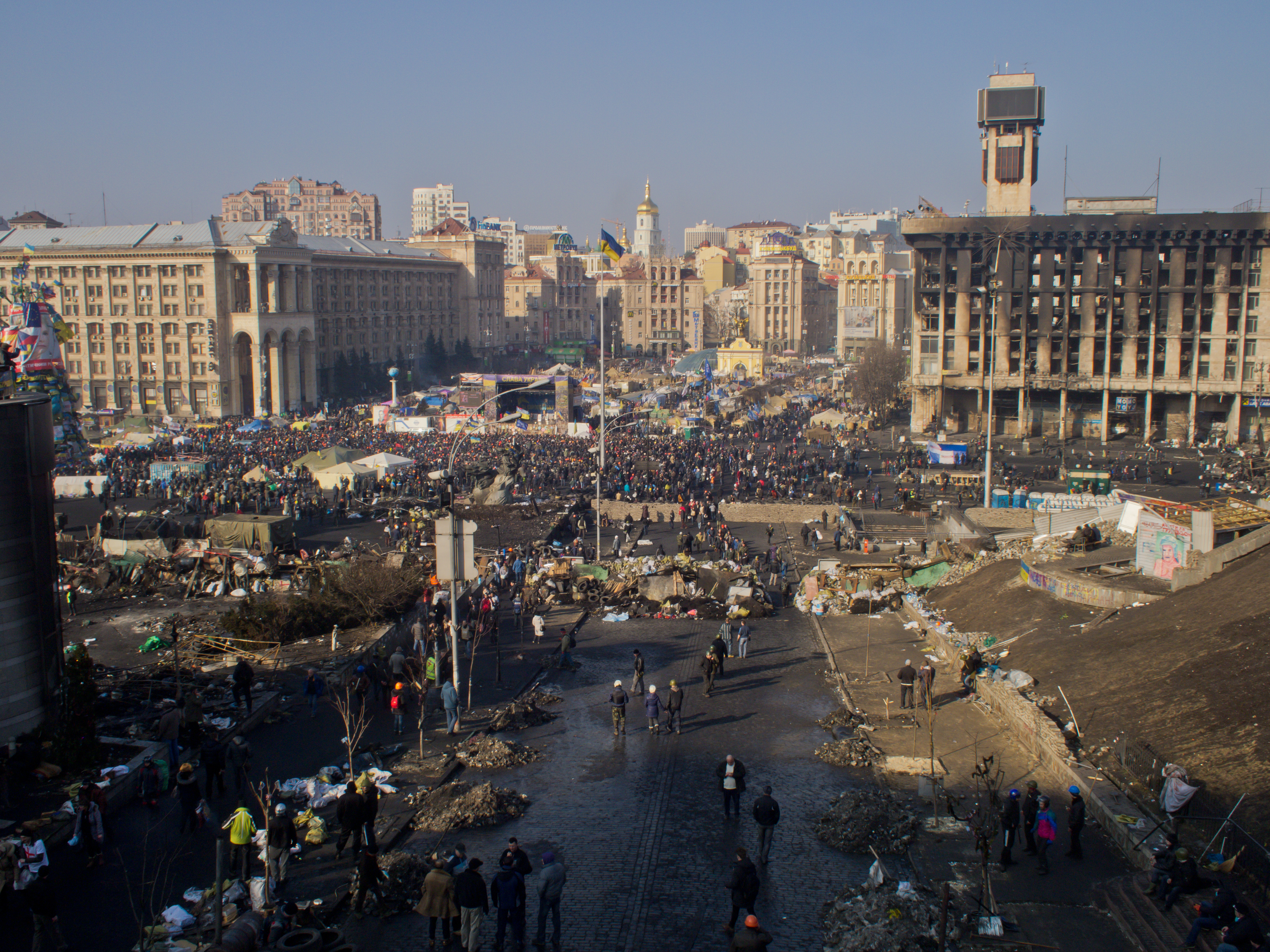 Euromaidan in Kiev, 21 February 2014.